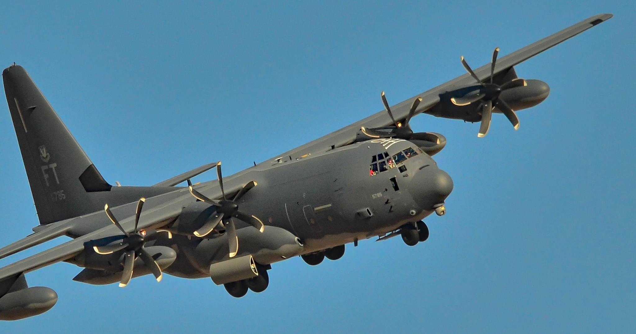 Las Vegas - Nellis AFB (LSV / KLSV) USA - Nevada, February 22, 2017 Photo: TDelCoro